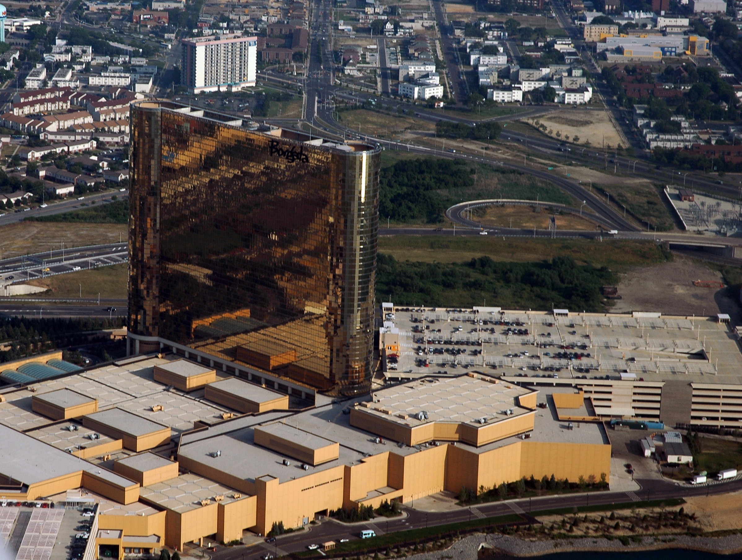 Self made image. GDFL. Aerial view of the Borgata complex. Hotel, Casino, and Spa in Atlantic City, New Jersey